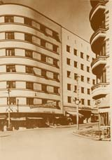 Picture of hotel Astoria from 1938